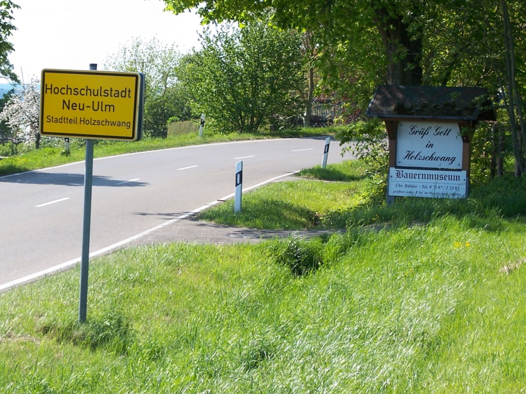 City limit sign of Neu-Ulm, Holzschwang borough